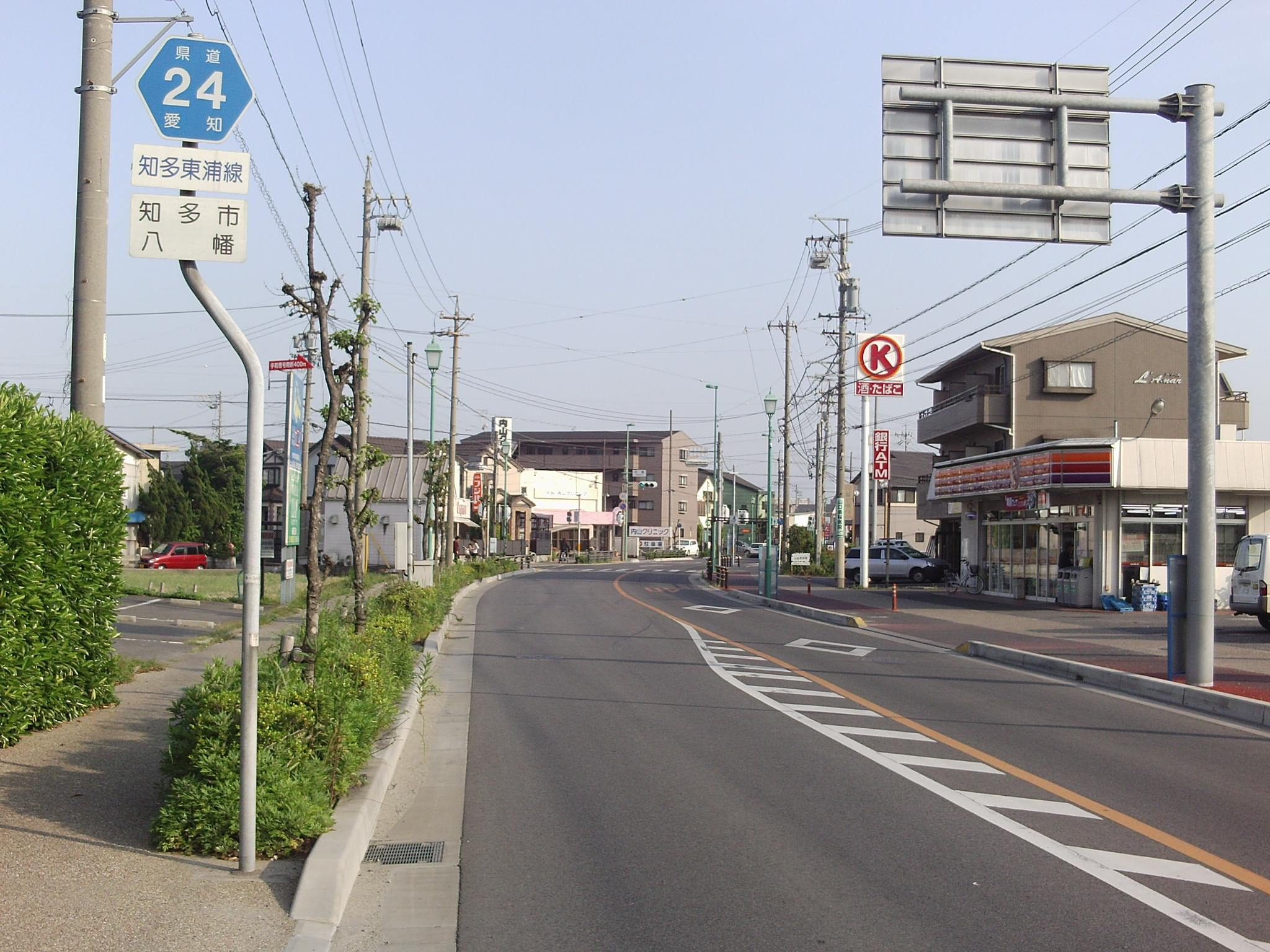 Aichi prefectural road No.24 in Yawata, Chita, Aichi.